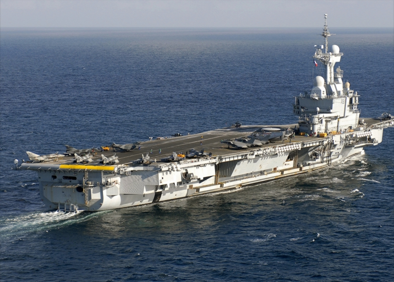 The French aircraft carrier Charles De Gaulle (R91) underway in 2009.